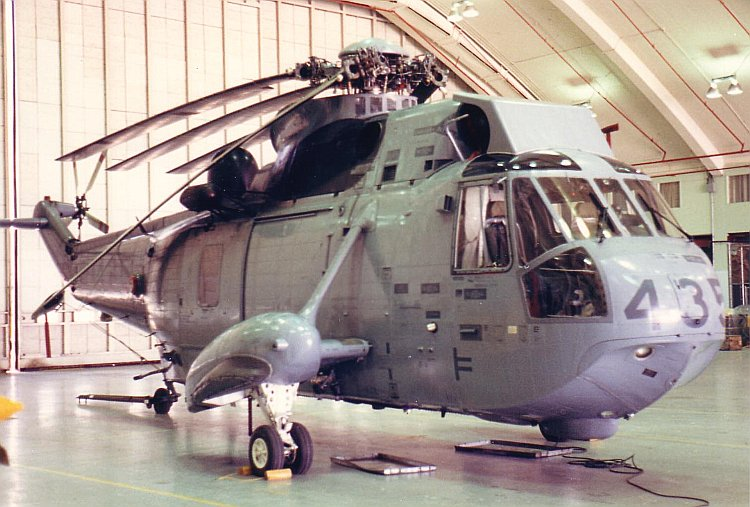 A Sikorsky CH-124 Sea King in St Hubert, Quebec, in 1986. Rotor blades are folded for storage.